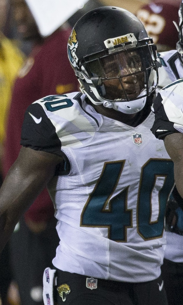 Jaguars at Redskins 9/3/15